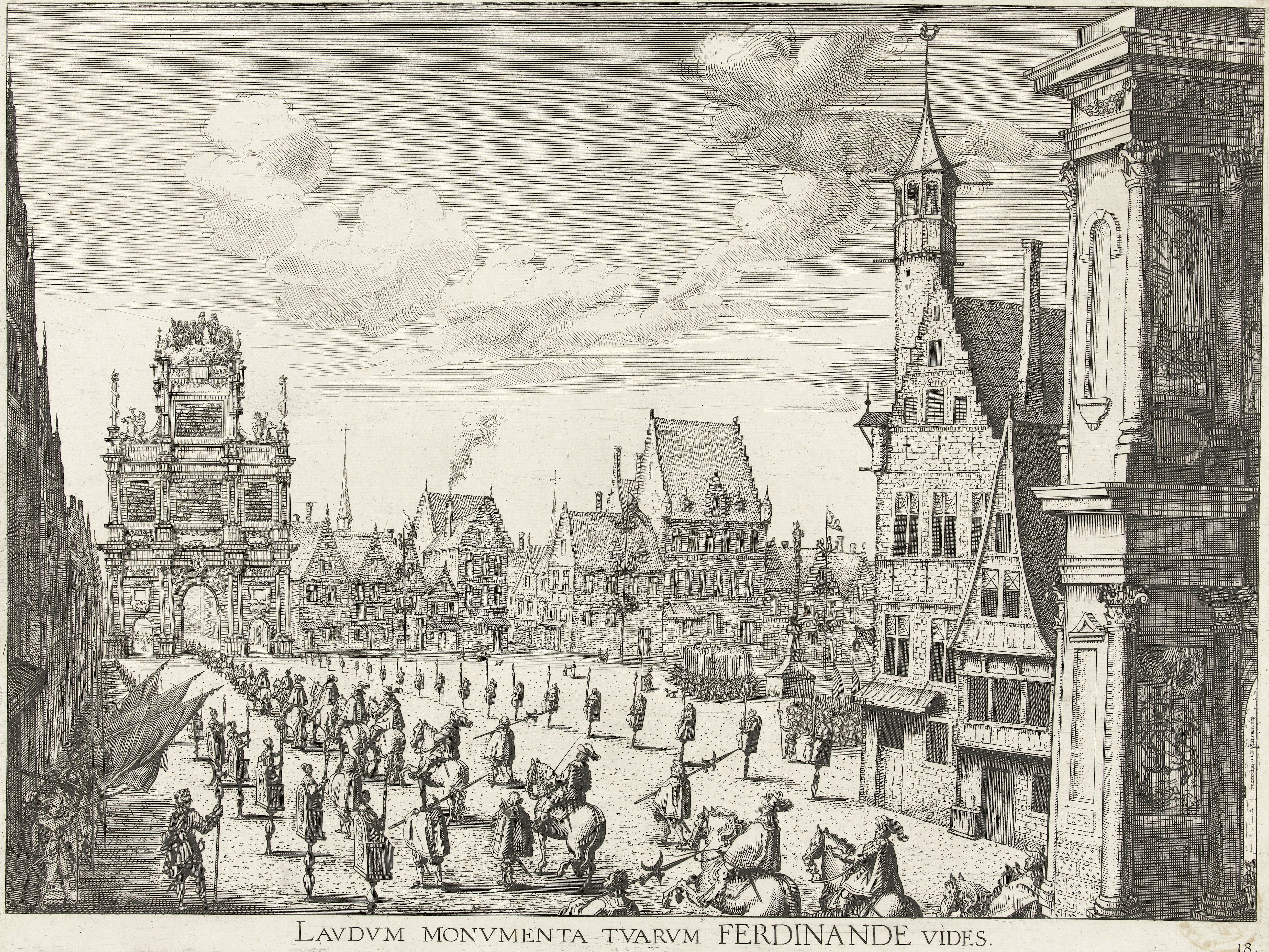 Procession of the Spanish Prince Ferdinand into the city of Ghent, January 28, 1635 - Plate 18 from Guillielmus Becanus, Serenissimi Principis Ferdinandi, Hispaniarum Infantis..., published in Antwerp by Johannes Meursius Engraving 295 × 389 mm (plate edge)